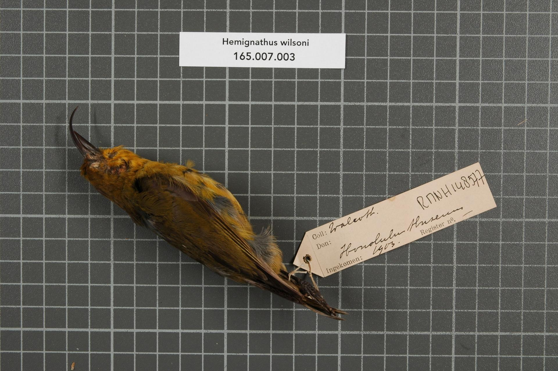 Hemignathus wilsoni (Rothschild, 1893)